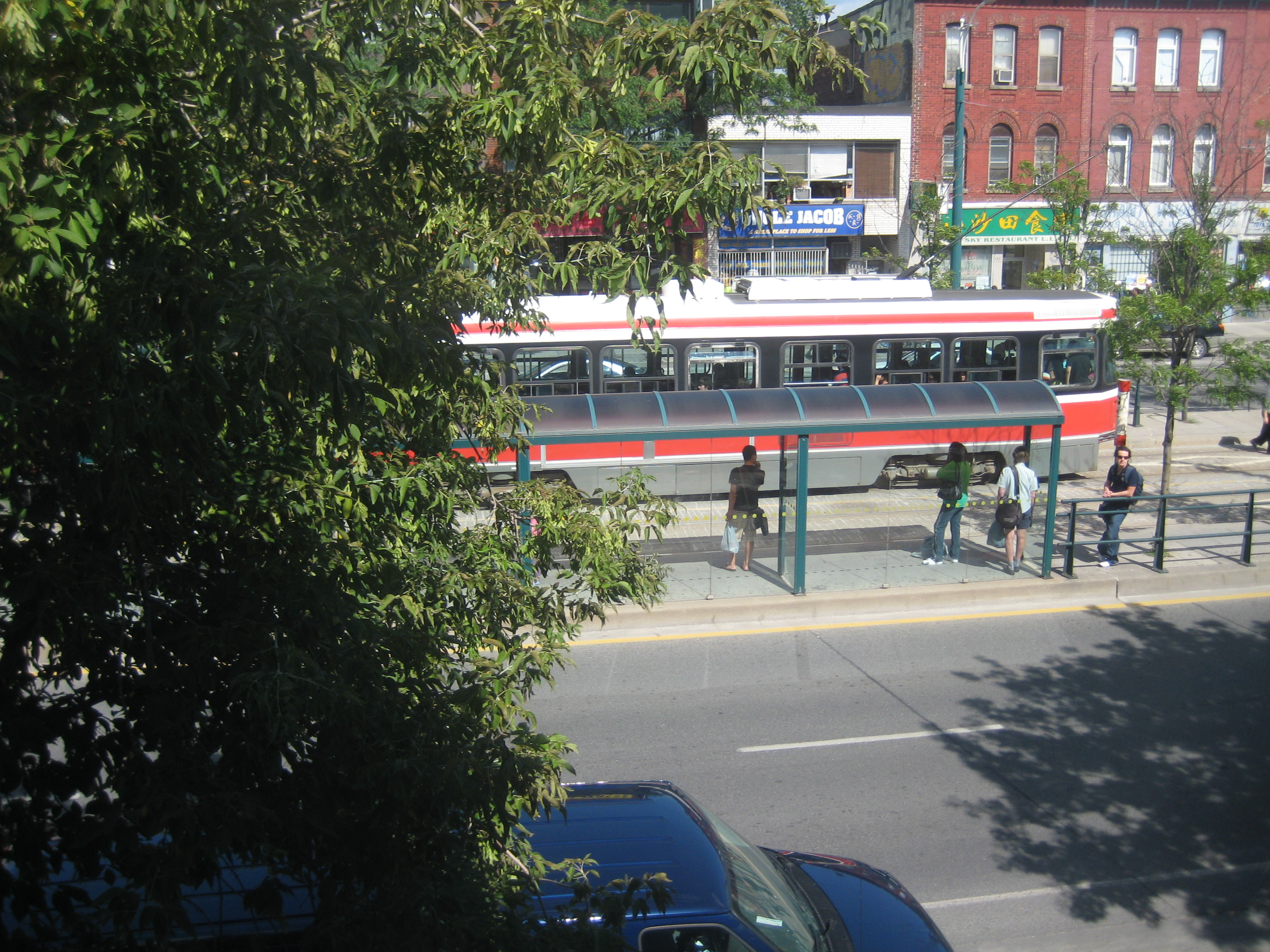 Picture of commuters waiting for the 510 Streetcar, Toronto, Canada